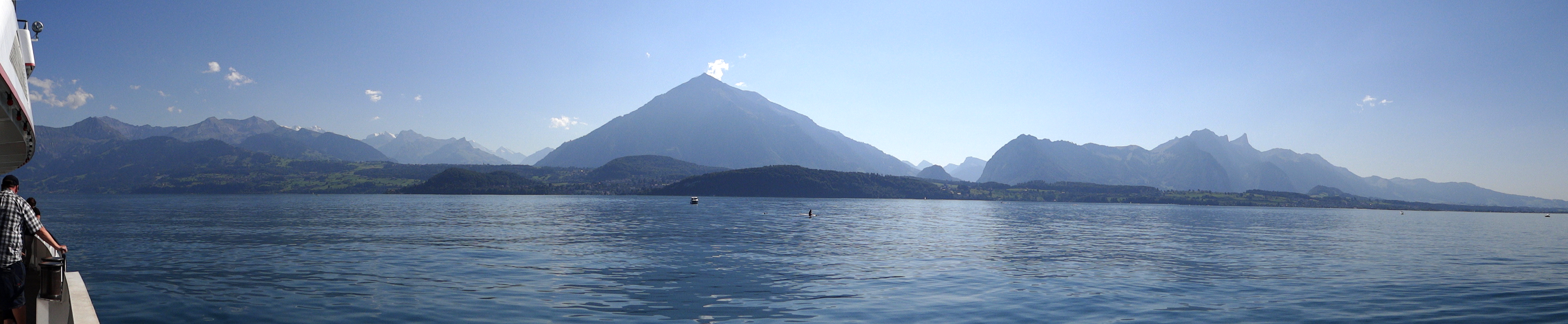 Pyramidal Niesen mountain, viewed from the Lake Thun